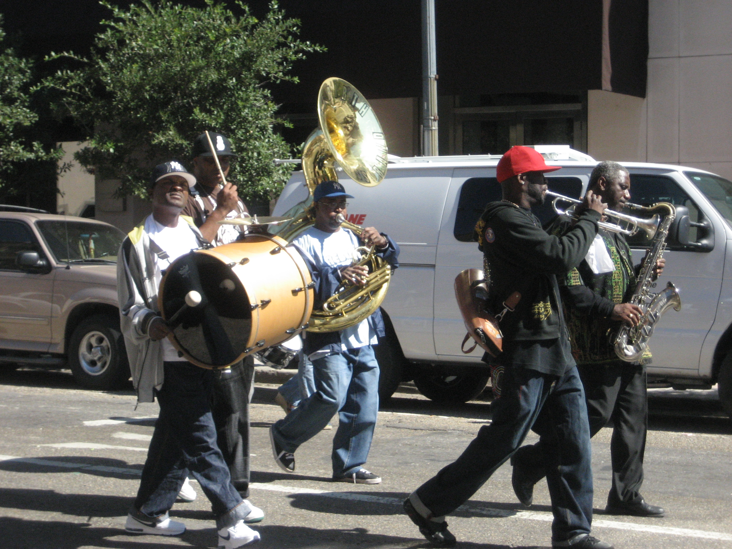 Phil Frazier (tuba), Derrick Tabb (snare drum), and Glen Andrews (trumpet) of Rebirth Brass Band in the New Orleans Central Business District